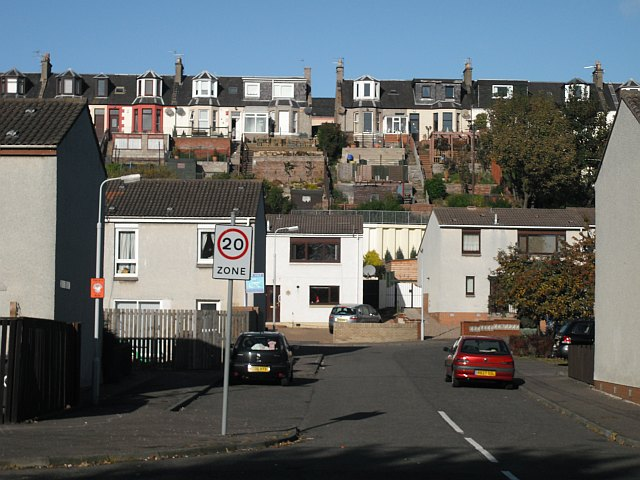 Levels of Methil Terraces on terraces, with some amazing steep gardens falling down what was probably a pre-isostatic uplift sea cliff. The top houses are on Whyte Road Terrace and have a very good view of East Lothain as well as Methil power station.